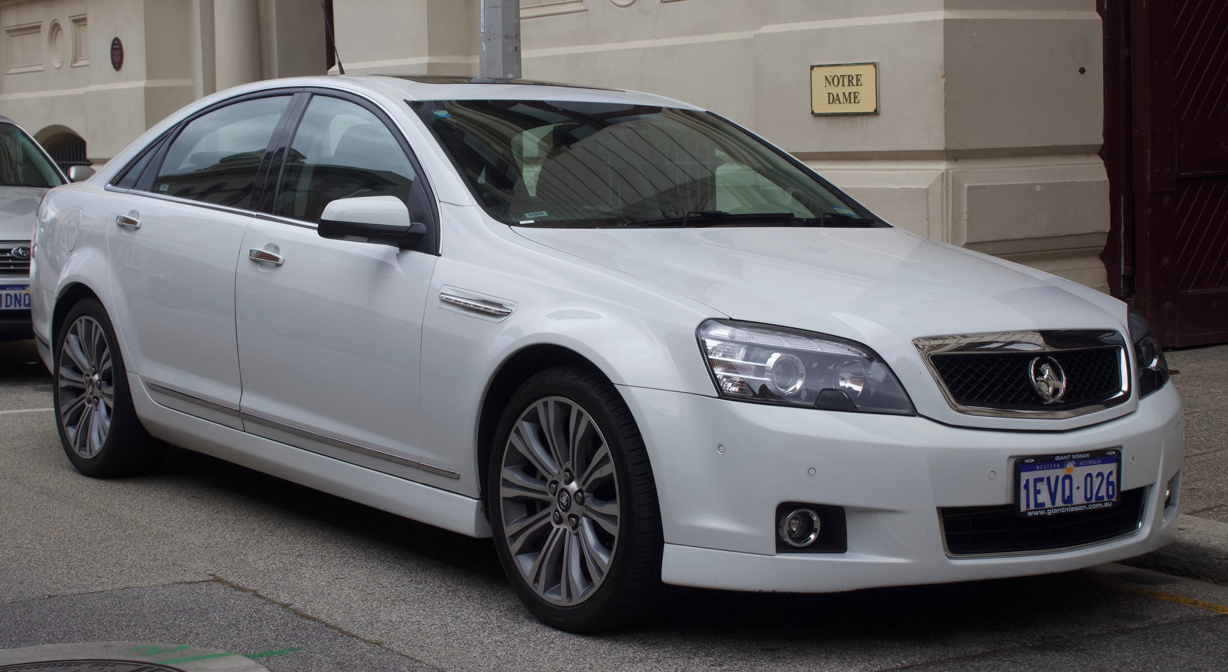 2013-2015 Holden Caprice (WN) V sedan. Photographed in Fremantle, Western Australia, Australia.